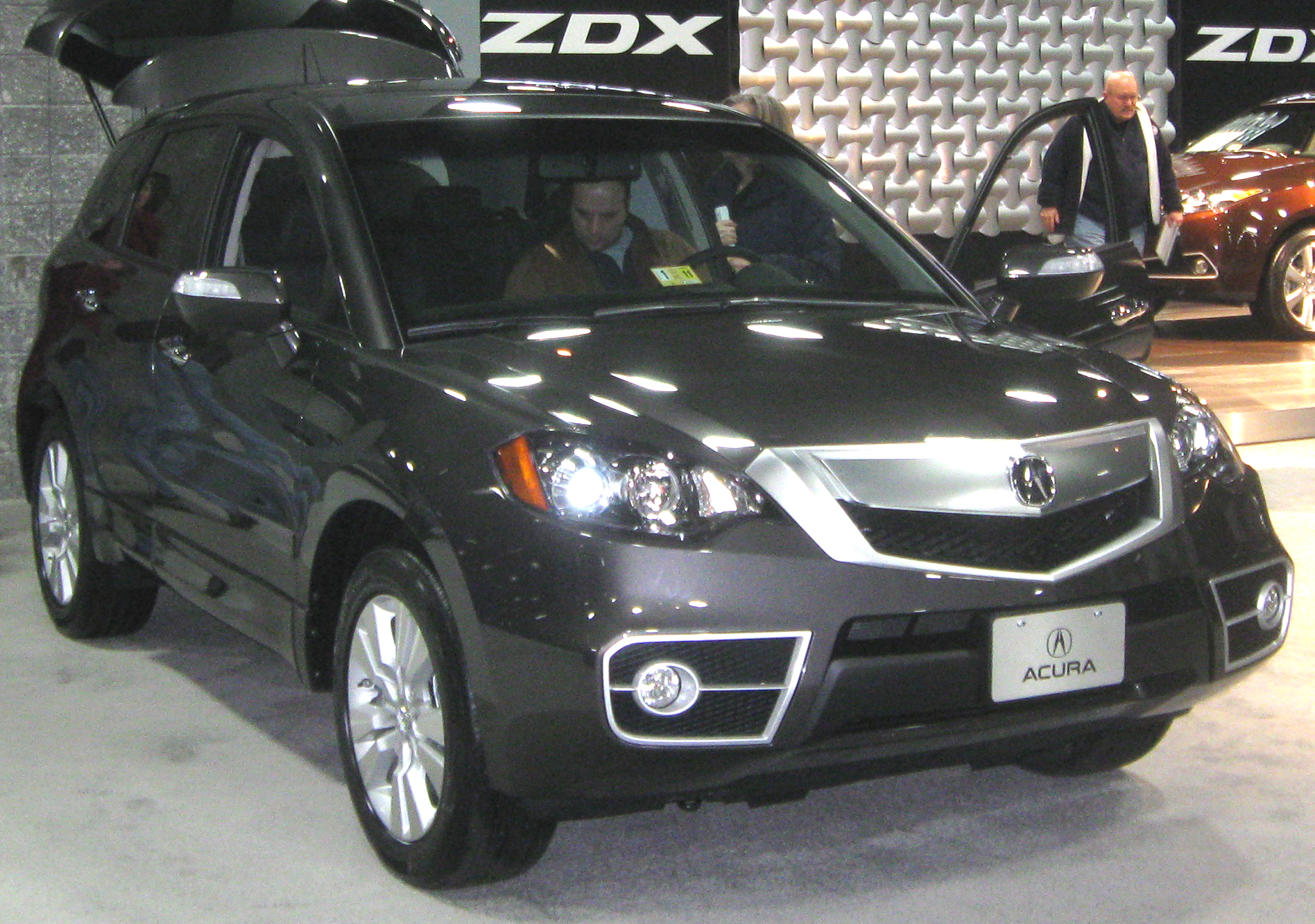 2010 Acura RDX photographed at the 2010 Washington Auto Show.